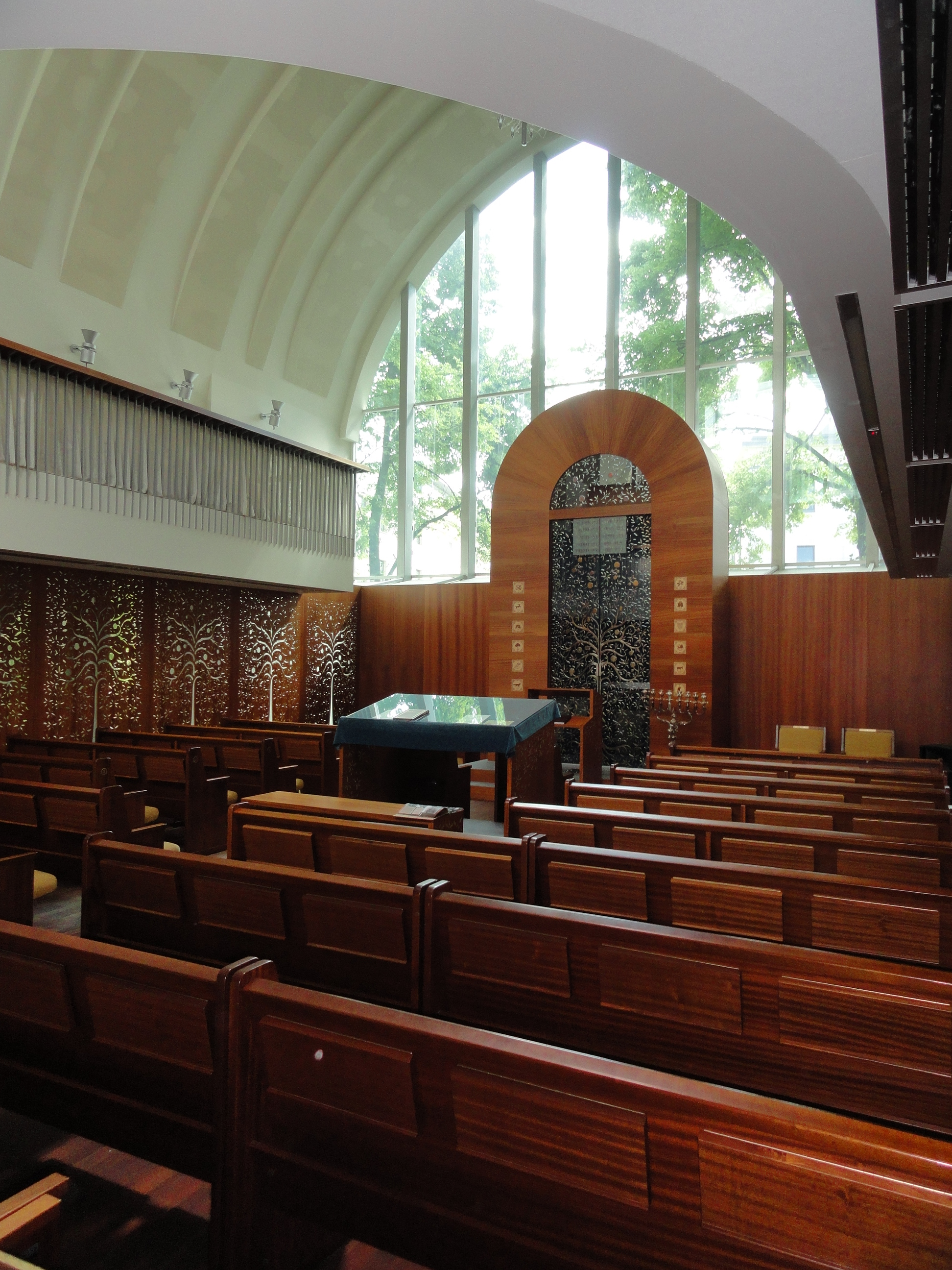 Interior of the Tallinn synagogue in Estonia